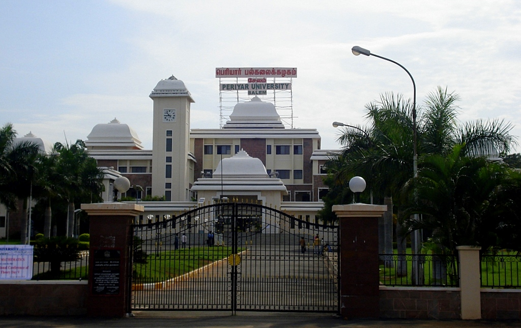 Periyar University Building, Salem